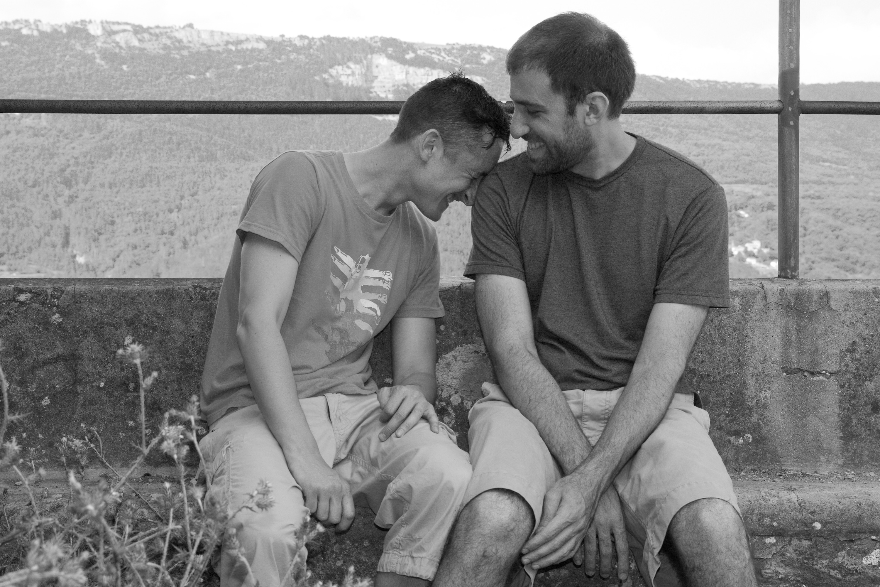 Male Couple in Istria, Croatia